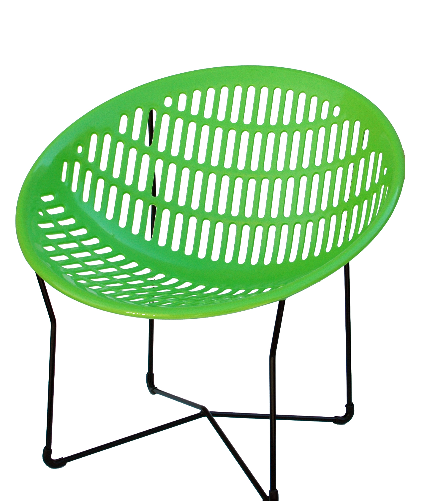 Solair chair (Lime Green)